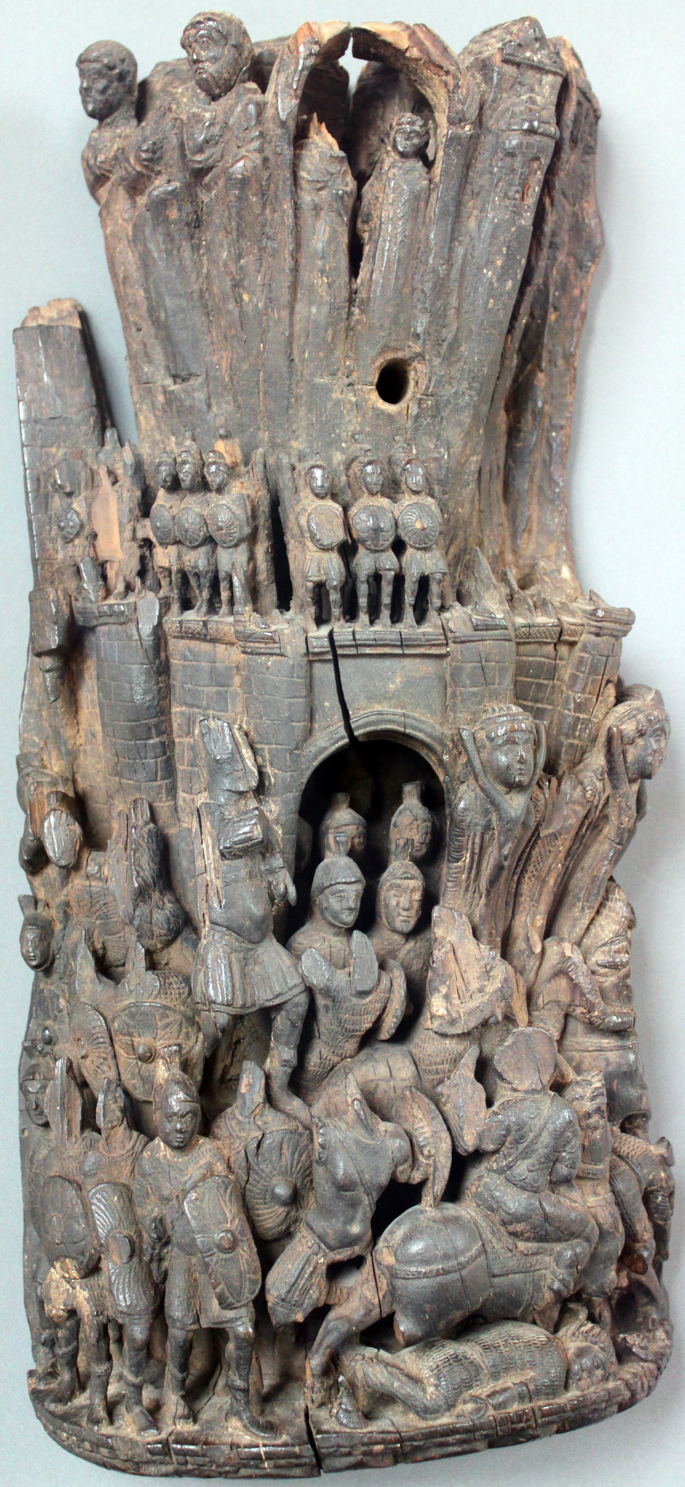 Boxwood relief with the Liberation of a Besieged City; Western Roman Empire, early 5th Century, Museum of Byzantine Art (inv. 4782), Bode Museum, Berlin